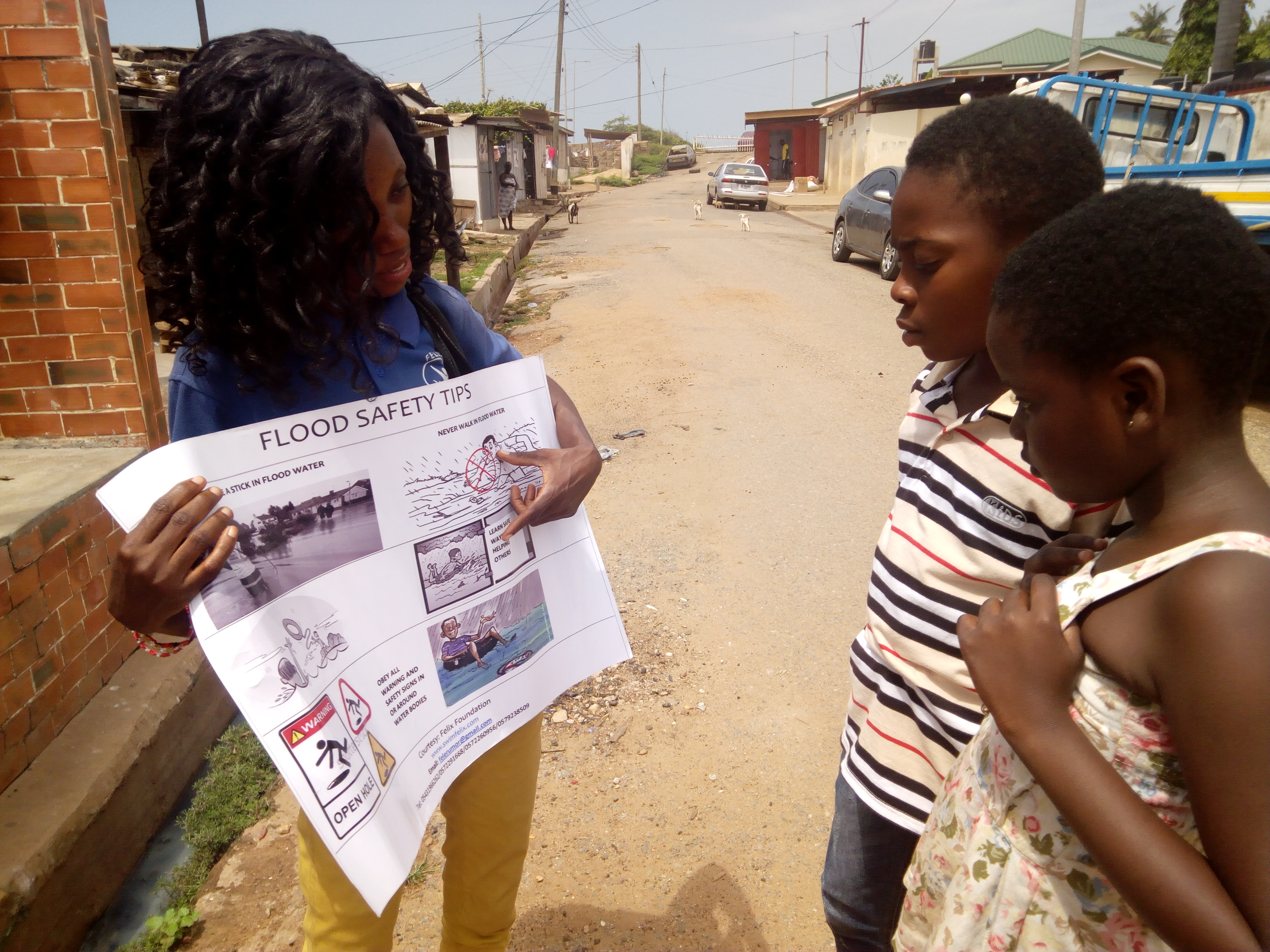 Eunice from Felix Foundation educating children on flood safety tips under the Aquatic Survival Program - Ghana This is an image of "African people at work" from Ghana